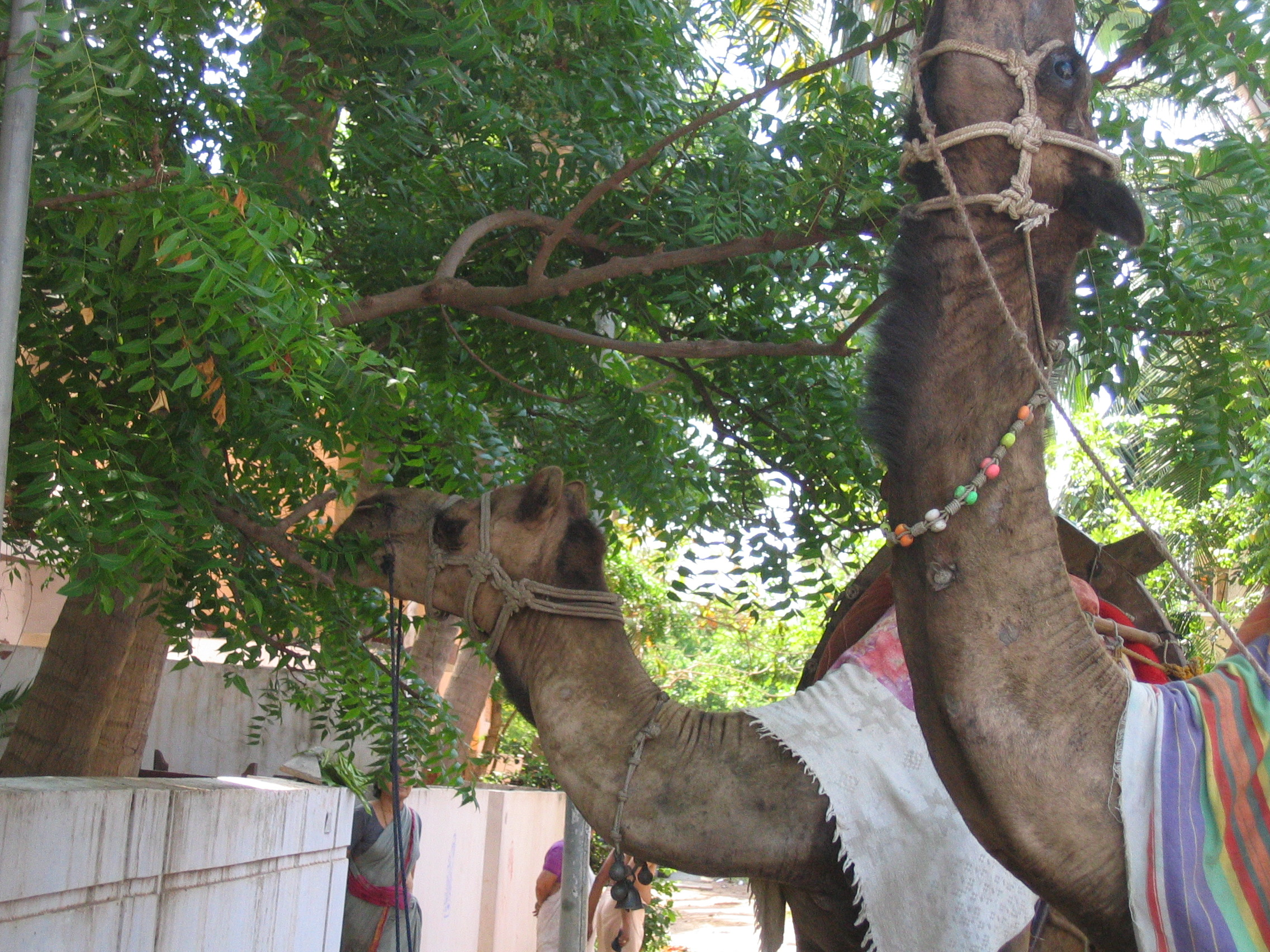 Exhibition Camels took a City ride in the morning time, at Guntur City, India during a summer season. They should be back to work in the evening.